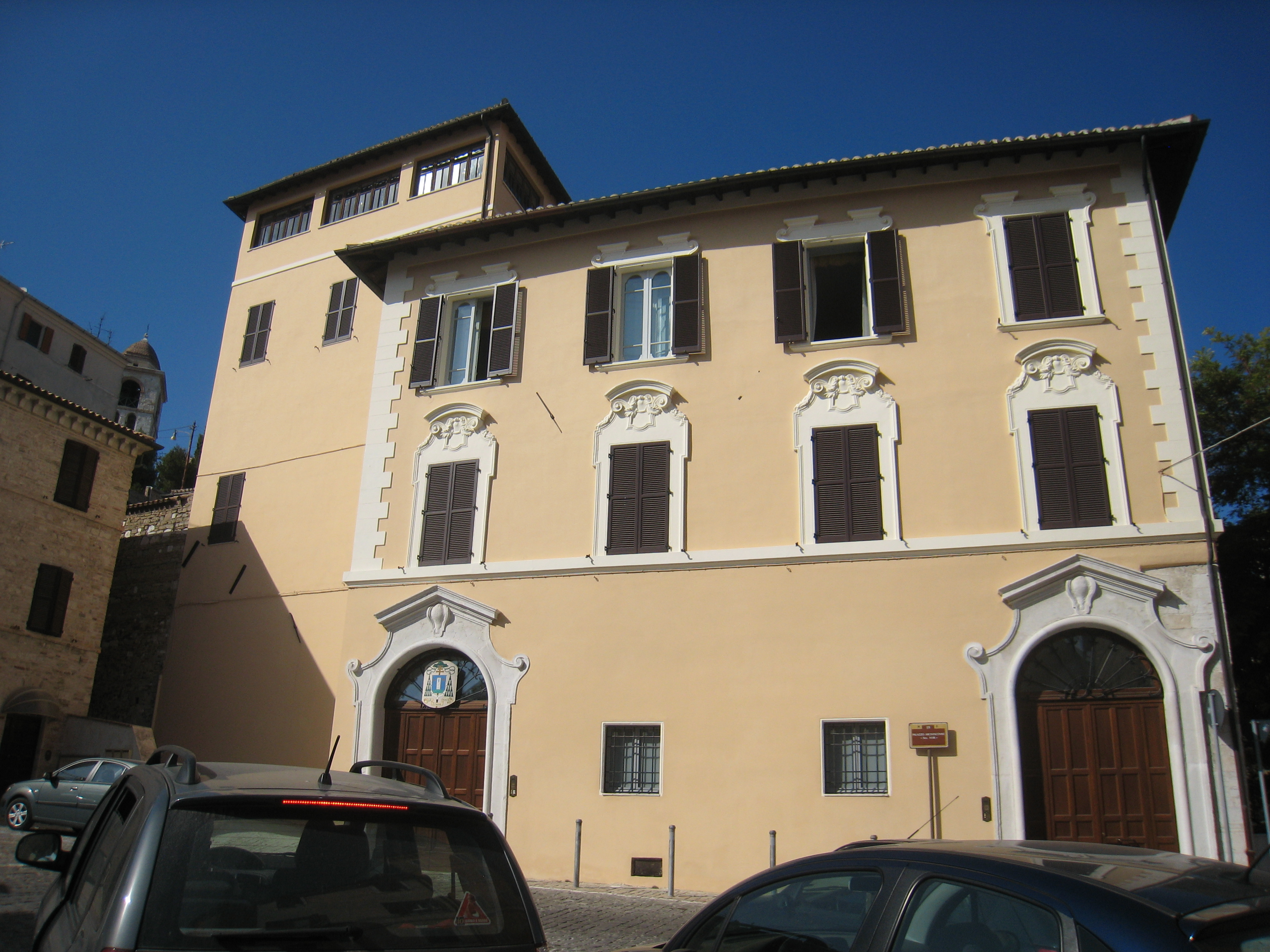 Ancona - Archbishop's Palace